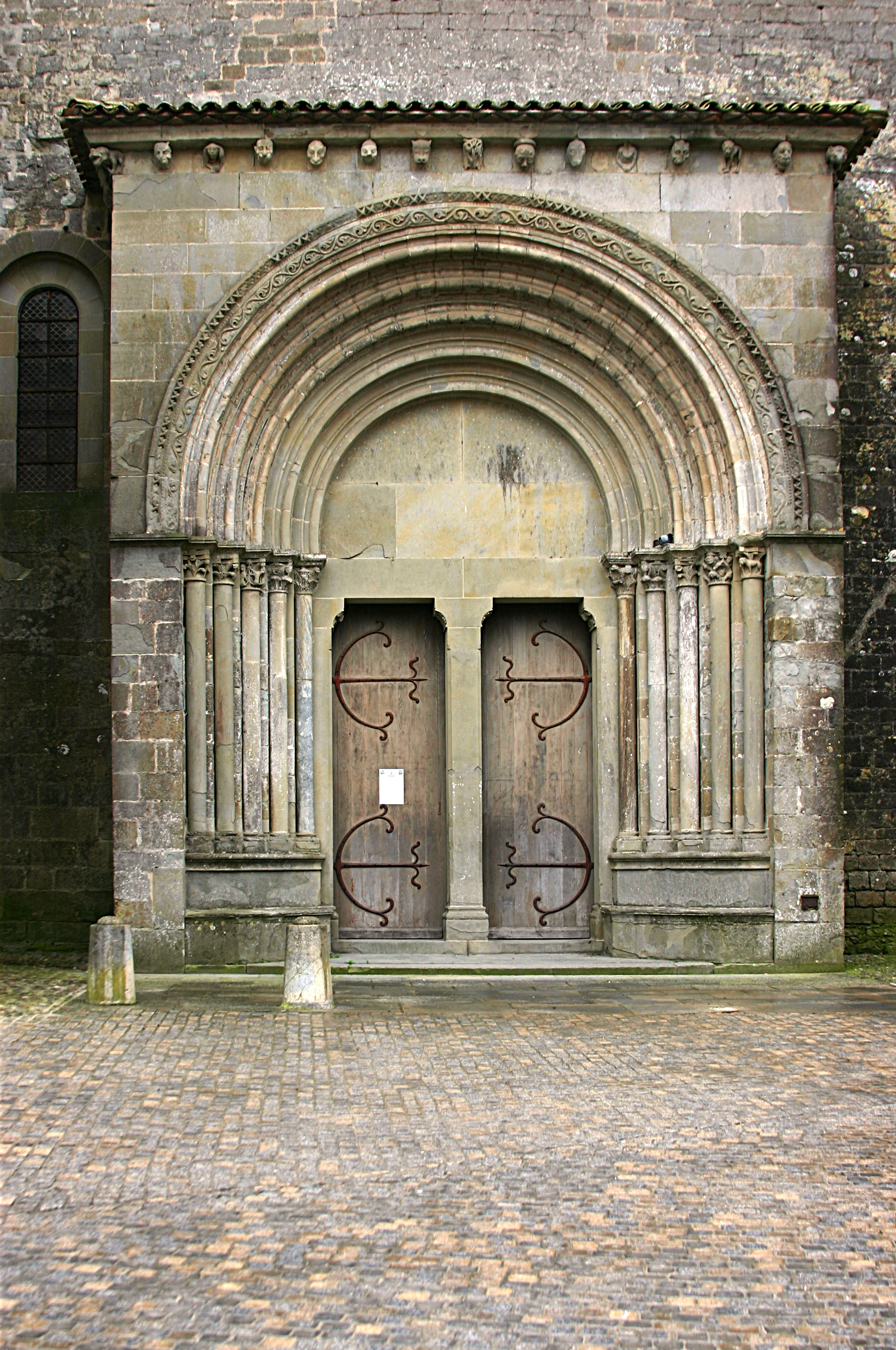 Carcassonne 2014